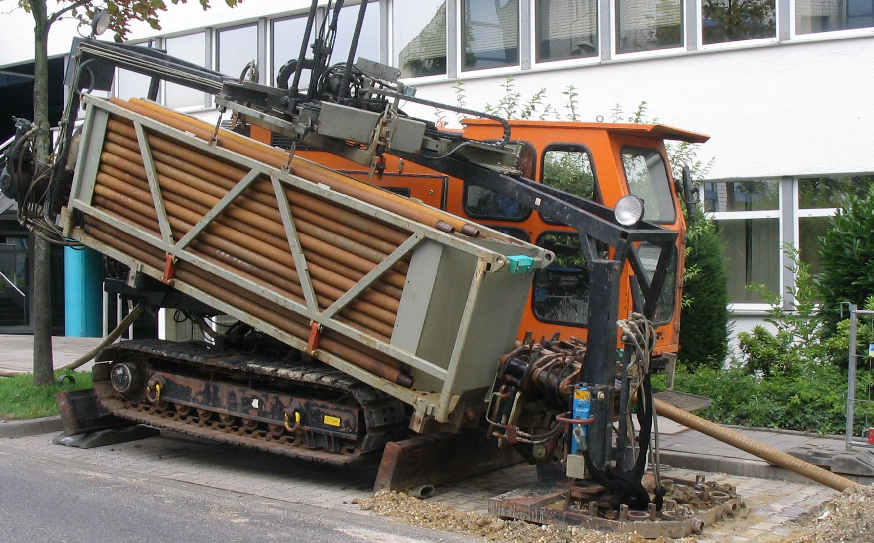 A horizontal drilling machine